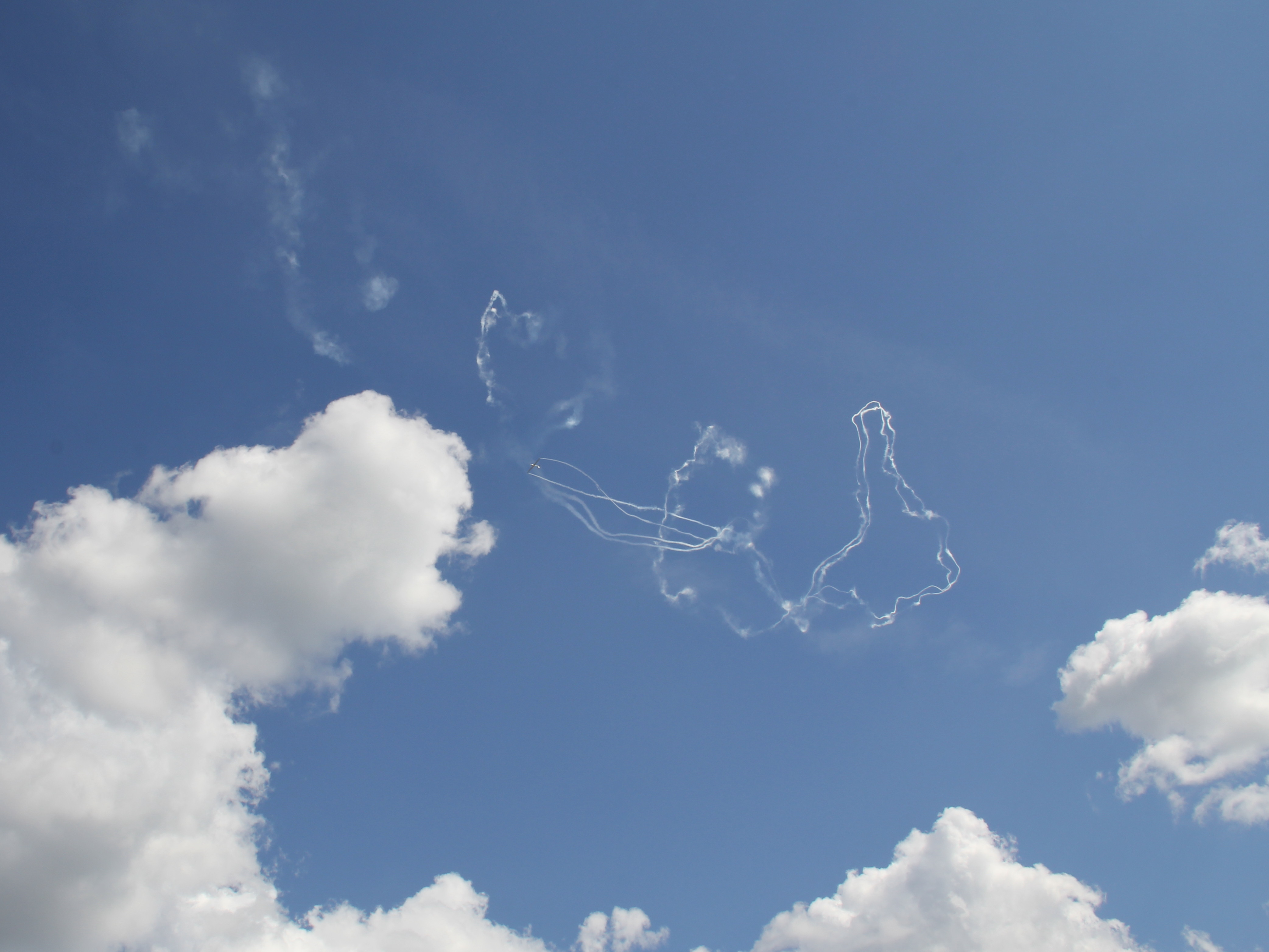 Ferenc Tóth (HUN) in Oripää Airshow 2013, Oripää Airfield (EFOP), Finland. Aerobatics with glider Swift S-1 (HA-7022). Clouds and effect smoke.